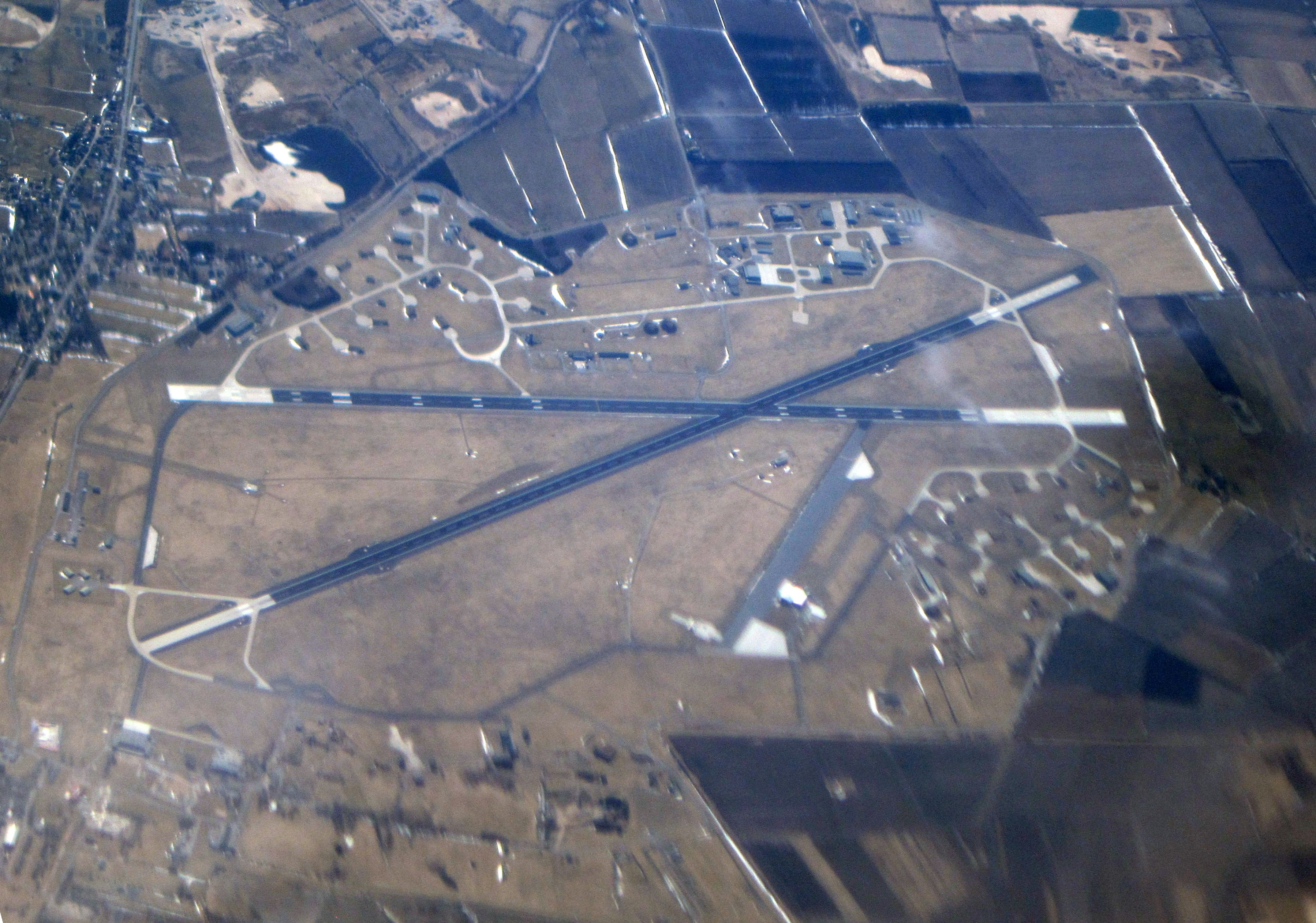 Aerial view of Schleswig Air Base